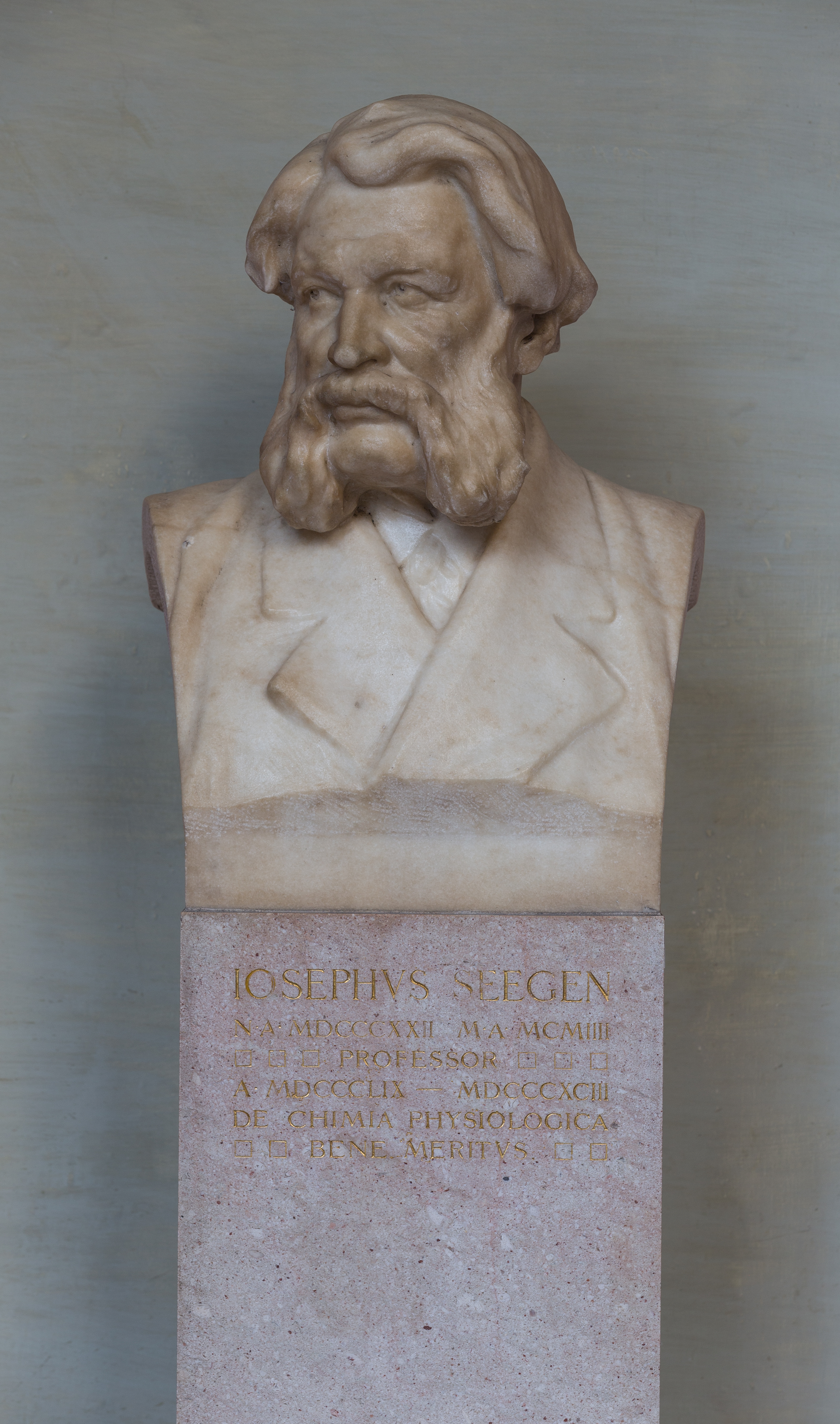 Josef Seegen (1822-1904), bust (marble) in the Arkadenhof of the University of Vienna, (Maisel# 72). Artist: Richard Kauffungen (1854-1942), unveiled 1910